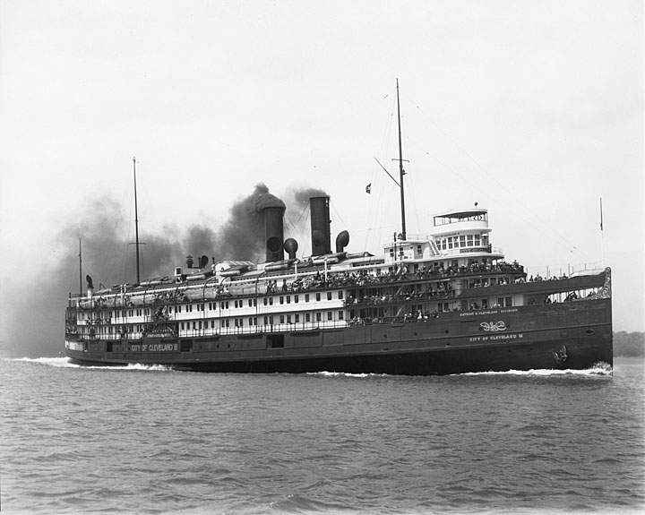 Passengers can be seen on deck Sign on bow reads Detroit and Cleveland Division Previously named City of Cleveland